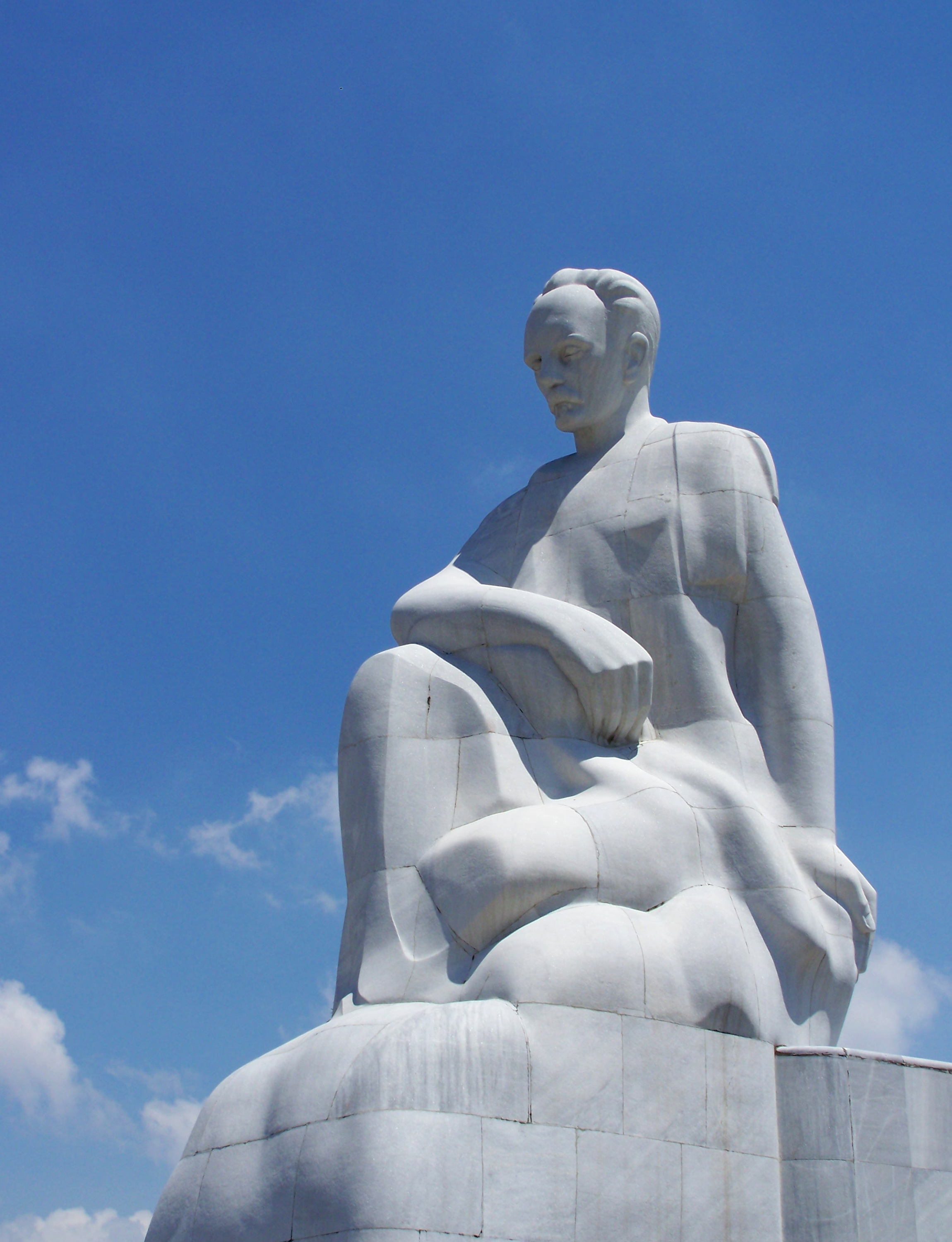 Estatue of Jose Marti in Havana, Cuba.